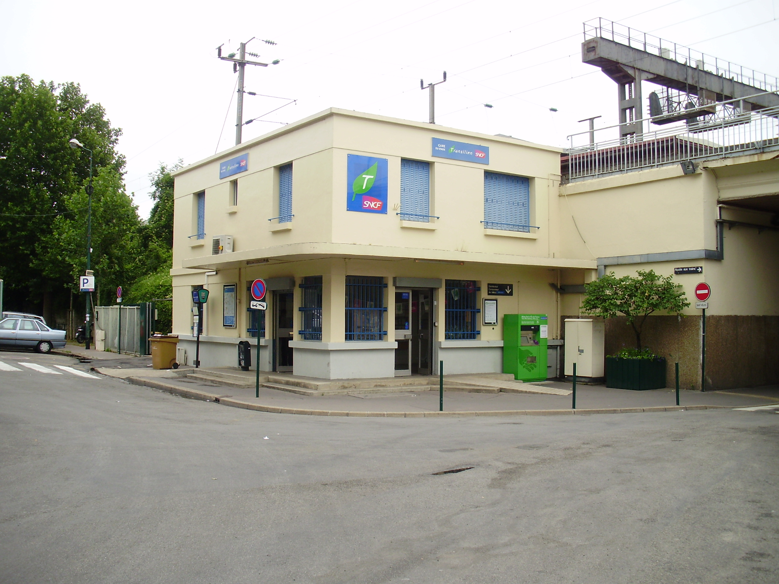 Le Stade station, in Colombes, Hauts-de-Seine, France (tickets office building, Facel Vega square)